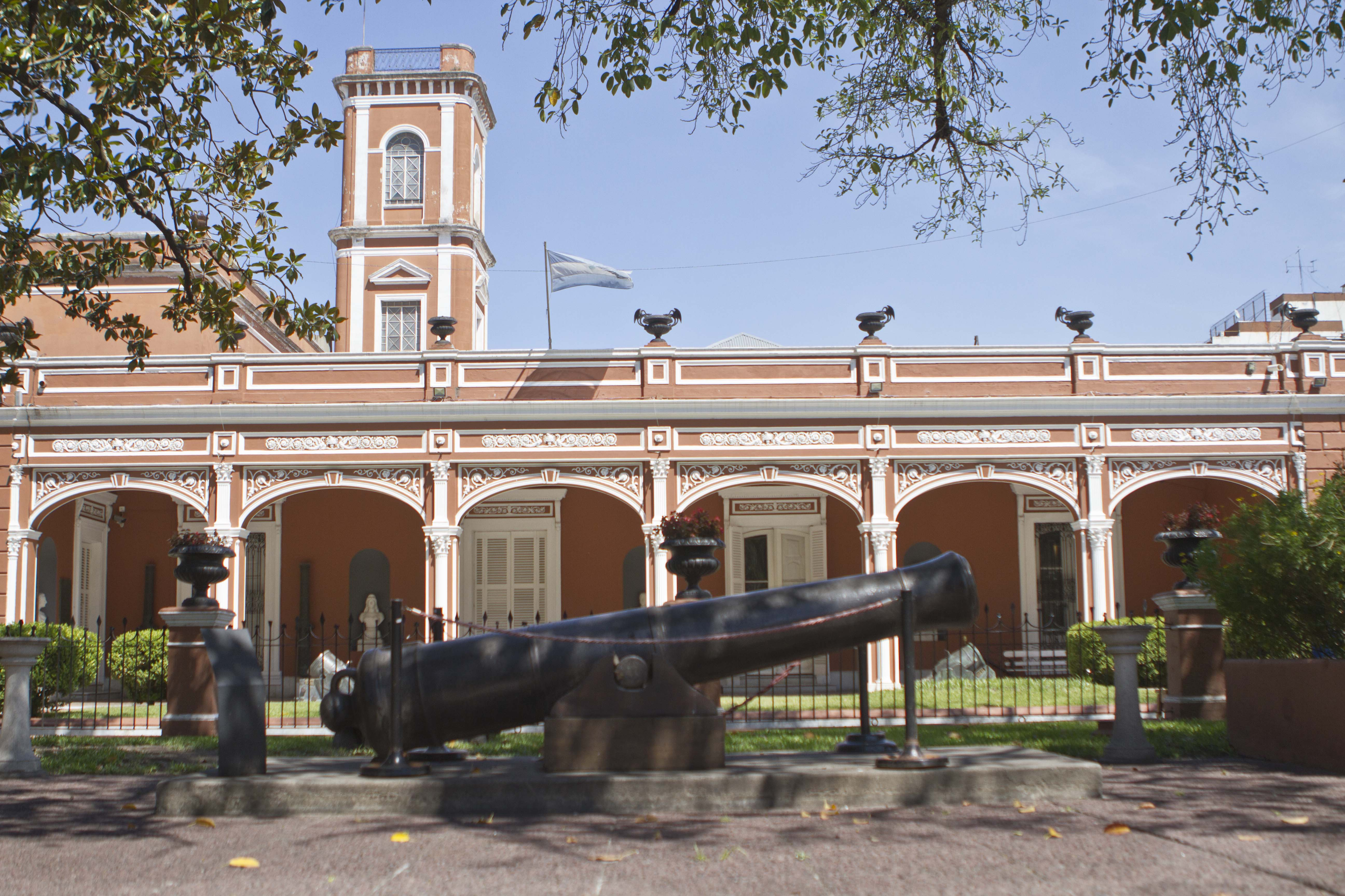 Frente del Museo Histórico Nacional Fotos:Soledad Amarilla / Ministerio de Cultura de la Nación